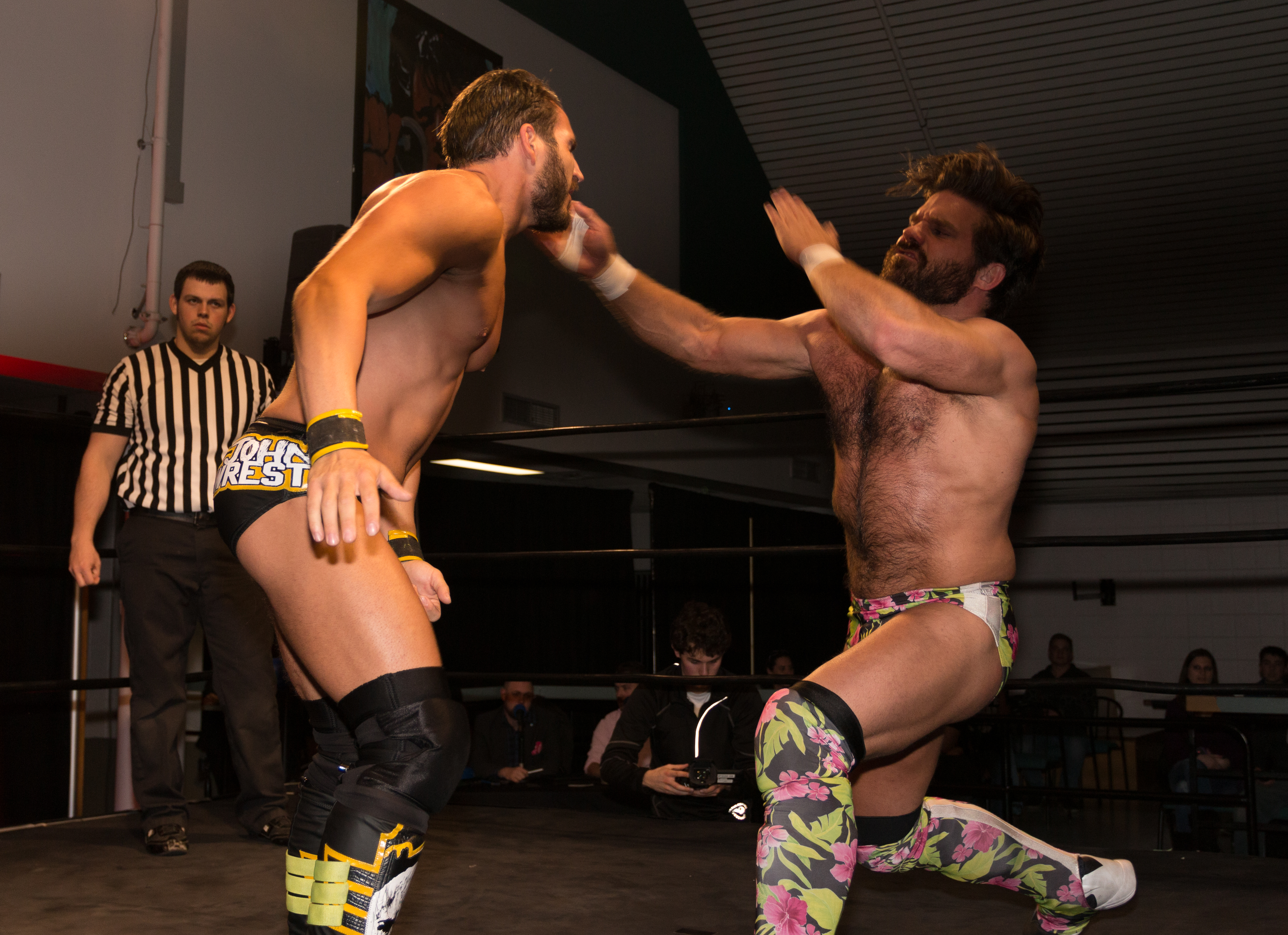 Joey Ryan (right) striking Johnny Gargano at a Smash Wrestling show at Fanshaw College in London, ON